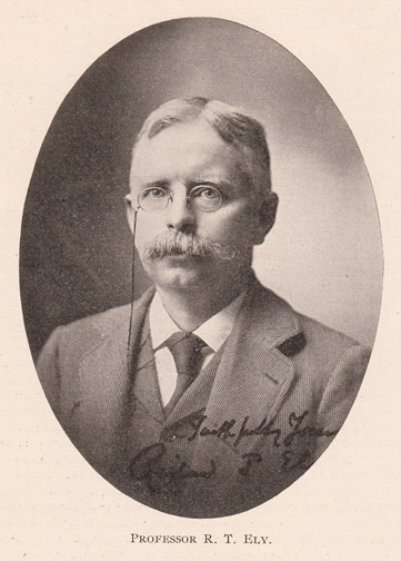 Professor Richard T. Ely, American economist and author